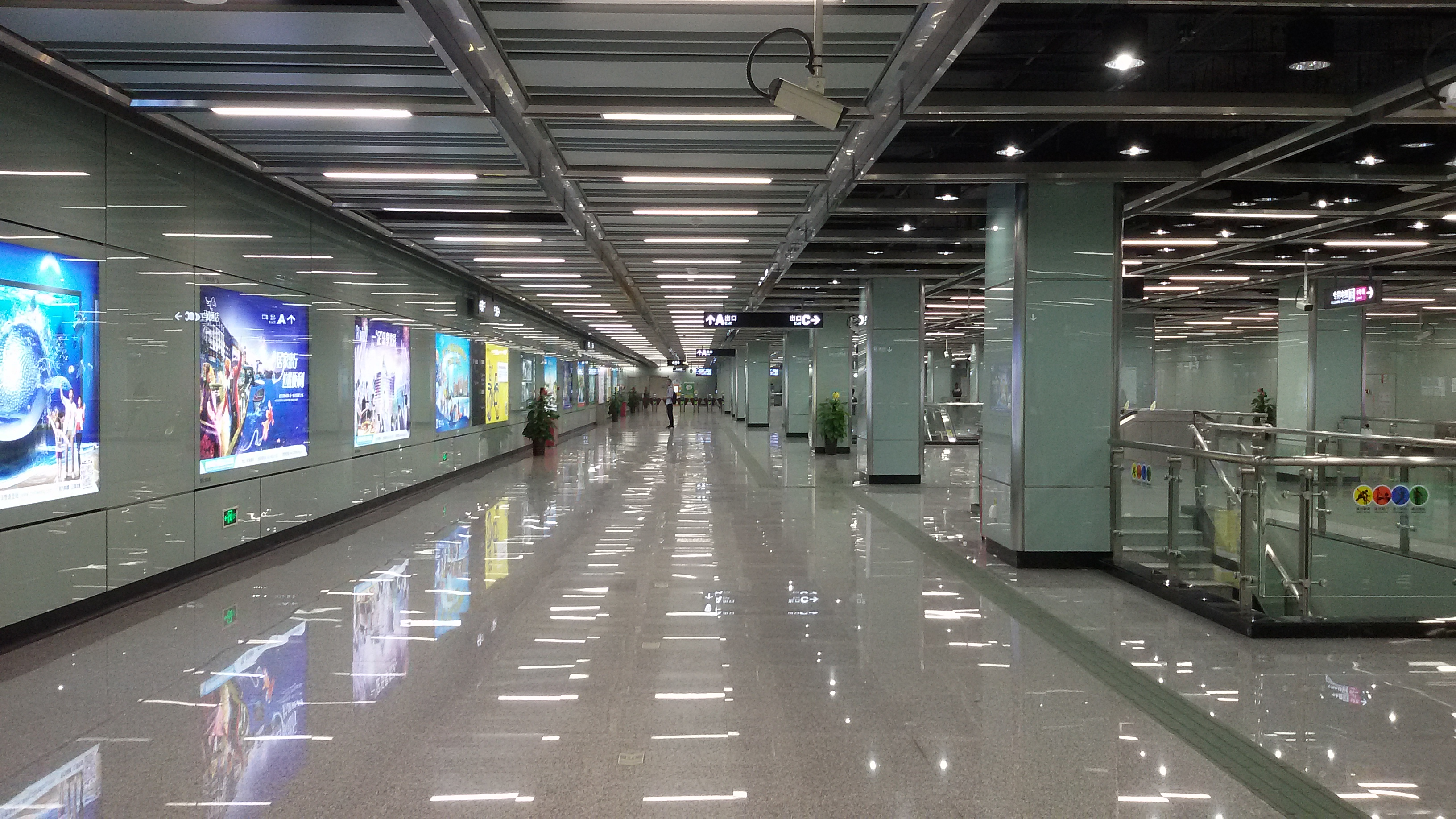 Station Concourse for Suyuan Station in Guangzhou Metro .